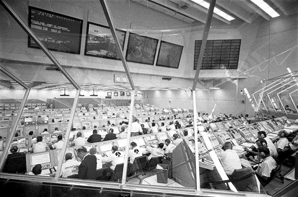 Photograph of Engineers Working in the Launch Control Center Preparing for the Launch of Apollo 11 on July 16, 1969.